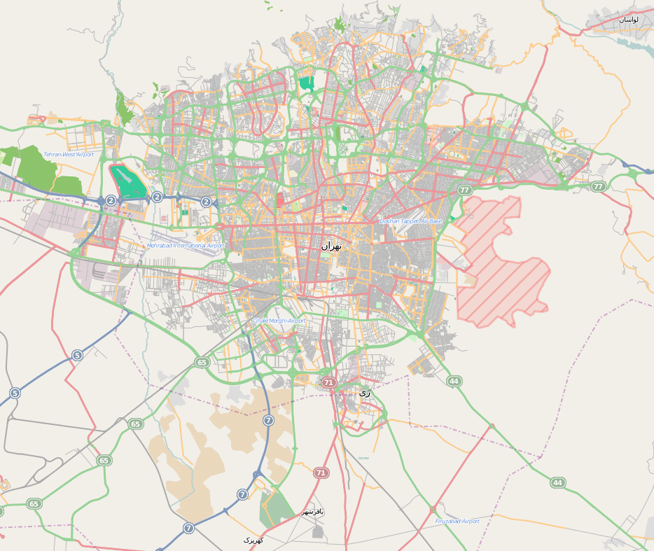 This map may be incomplete, and may contain errors. Don't rely solely on it for navigation. Border coordinates35.8351.18←↕→51.6535.51